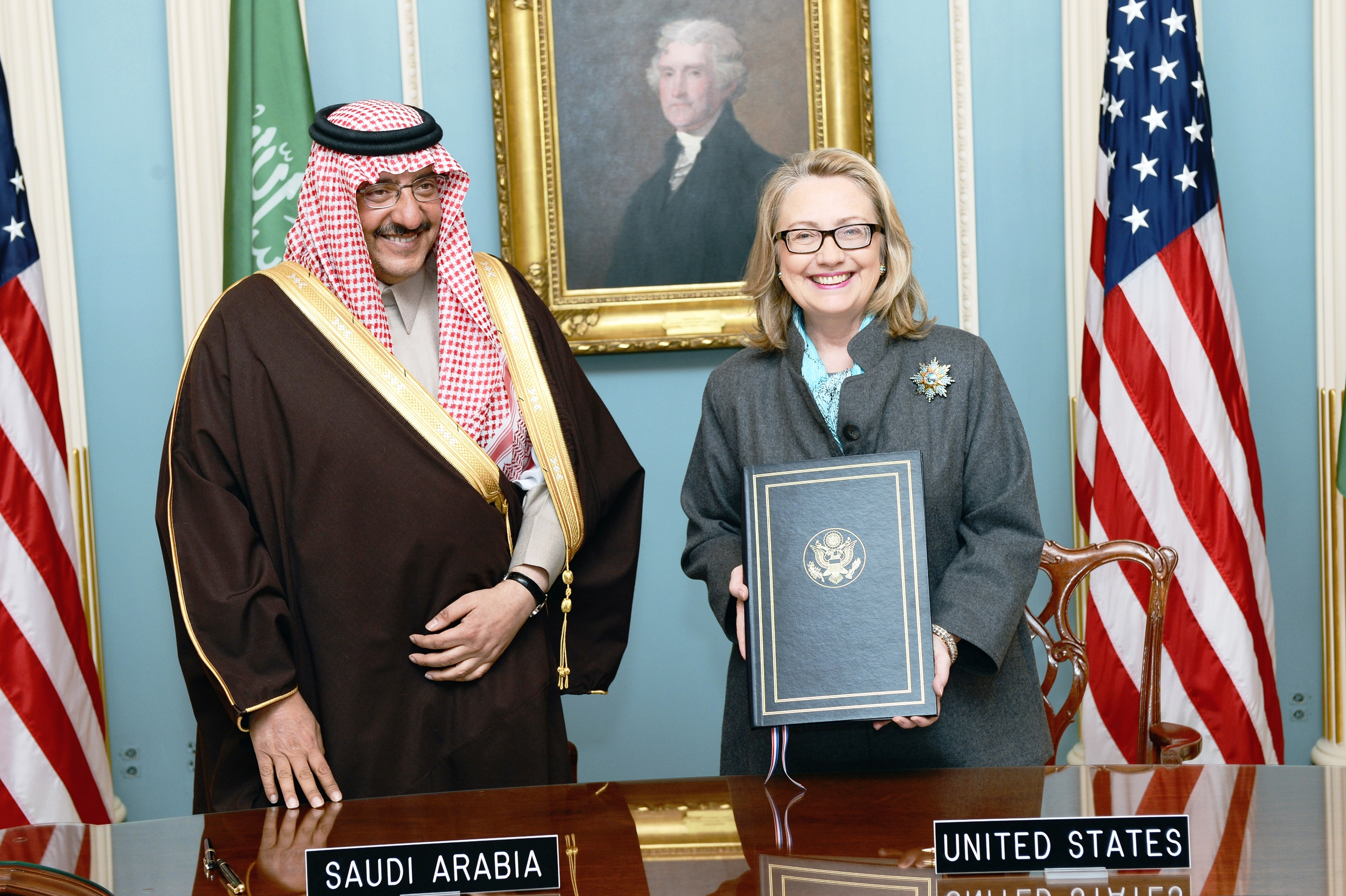 U.S. Secretary of State Hillary Rodham Clinton poses for a photo with Interior Minister of Saudi Arabia, Prince Mohammed bin Naif bin Abdulaziz, after a singing ceremony at the U.S. Department of State in Washington, D.C., January 16, 2013. [State Department photo/ Public Domain]